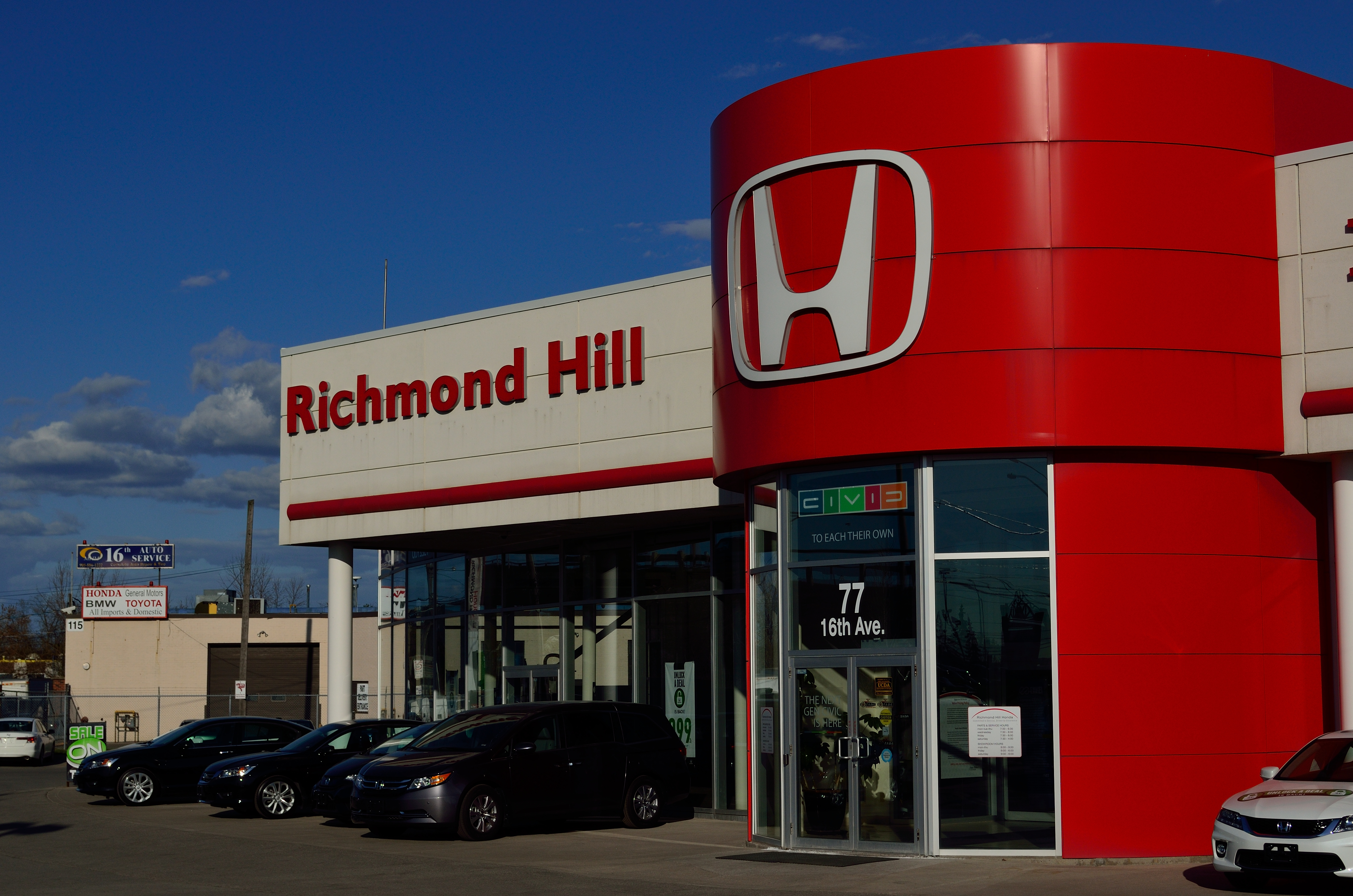 Richmond Hill Honda. Address: 77 16th Avenue, Richmond Hill, ON, L4C 7A5